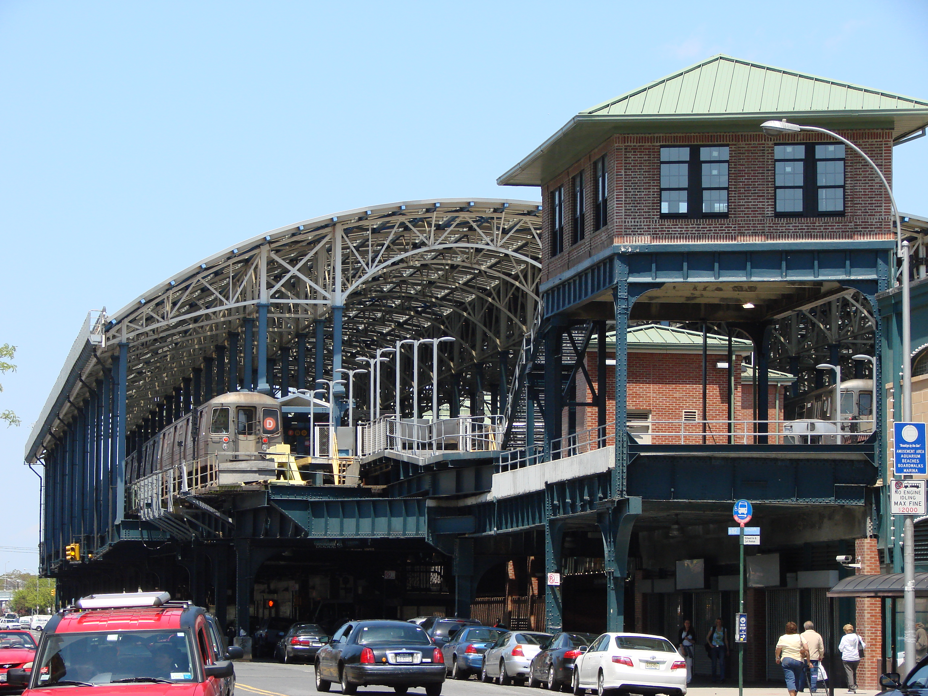 A D train terminates at Coney Island–Stillwell Avenue Station